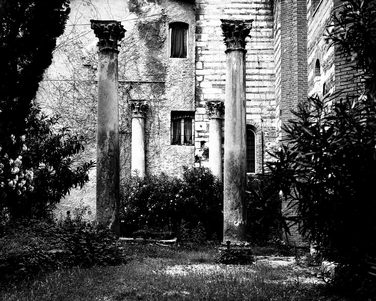 Verona, San Lorenzo: remains of the 19th century oratorio